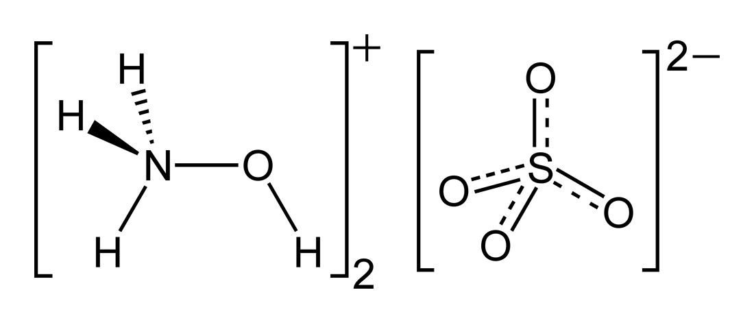 Structures of the ions in hydroxylammonium sulfate, [NH3OH]+2SO4−.